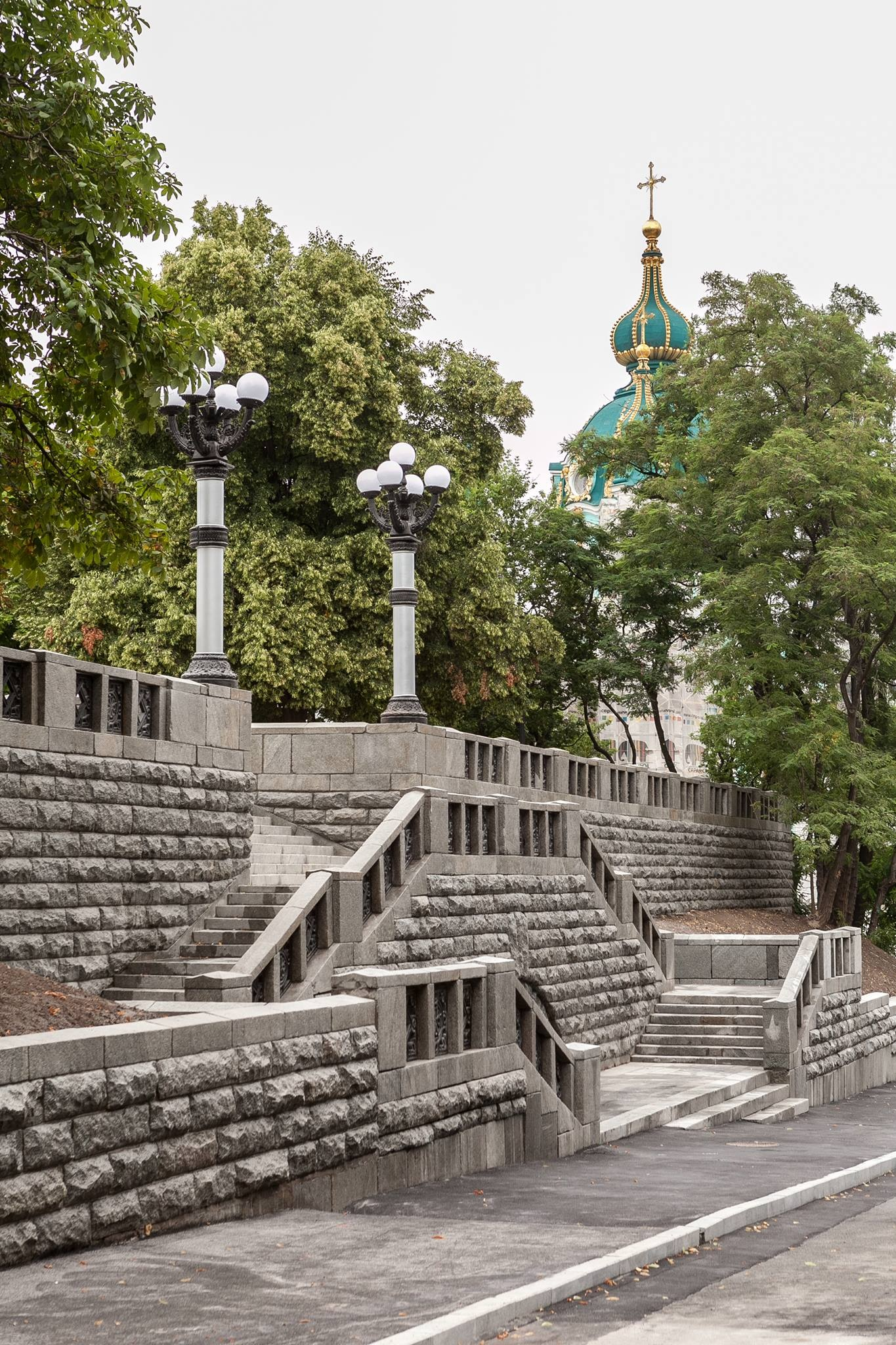 Restoration of the stares to the foundations of the Desyatynna Church, Kyiv